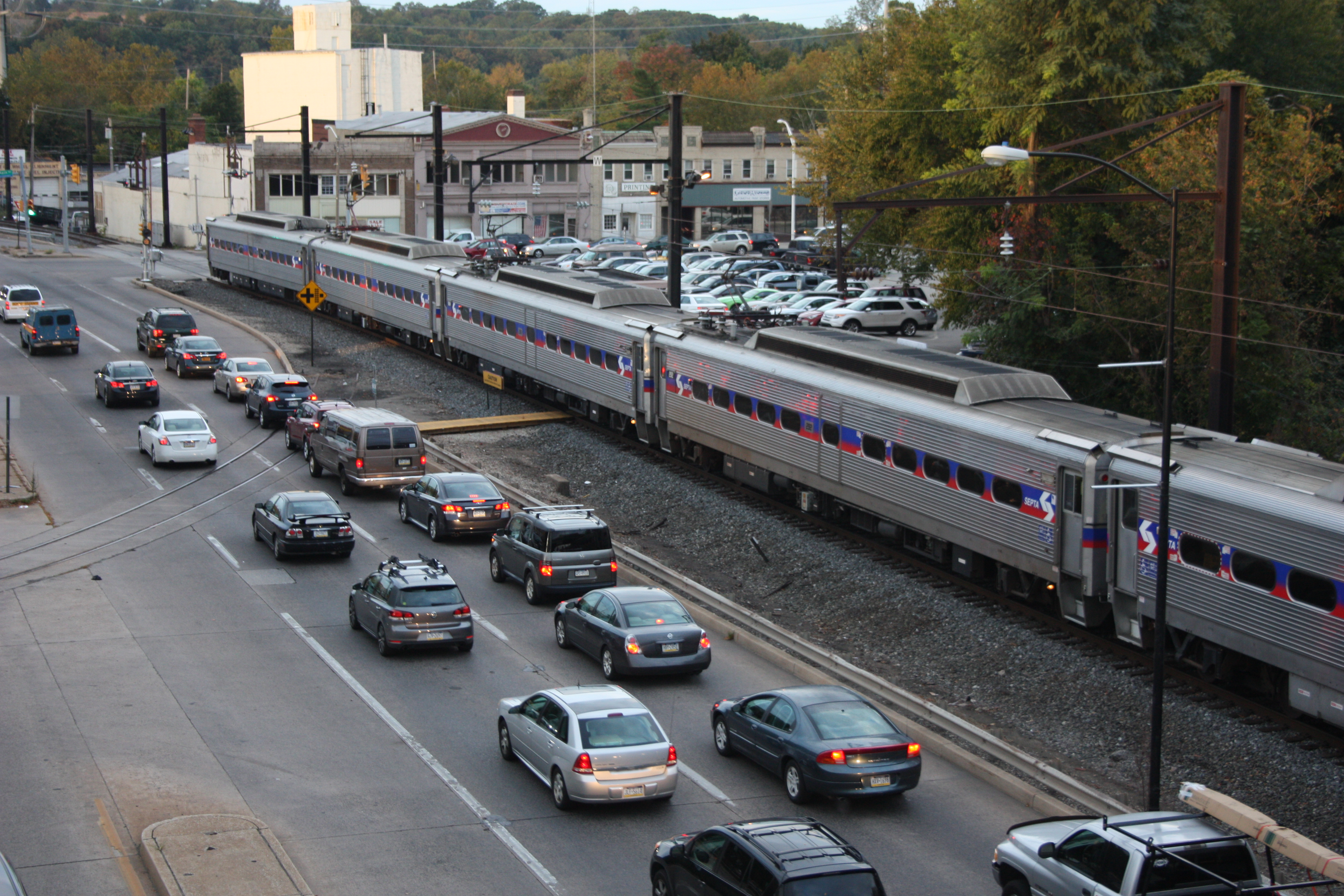 A SEPTA train at Main Street station, next to crowded Route 202